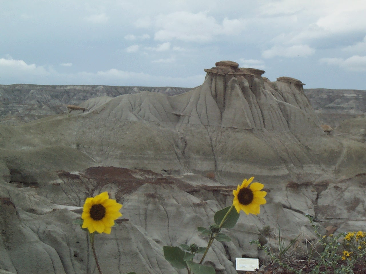 Hoodoos with wild sunflowers at Dinosaur Provincial Park.